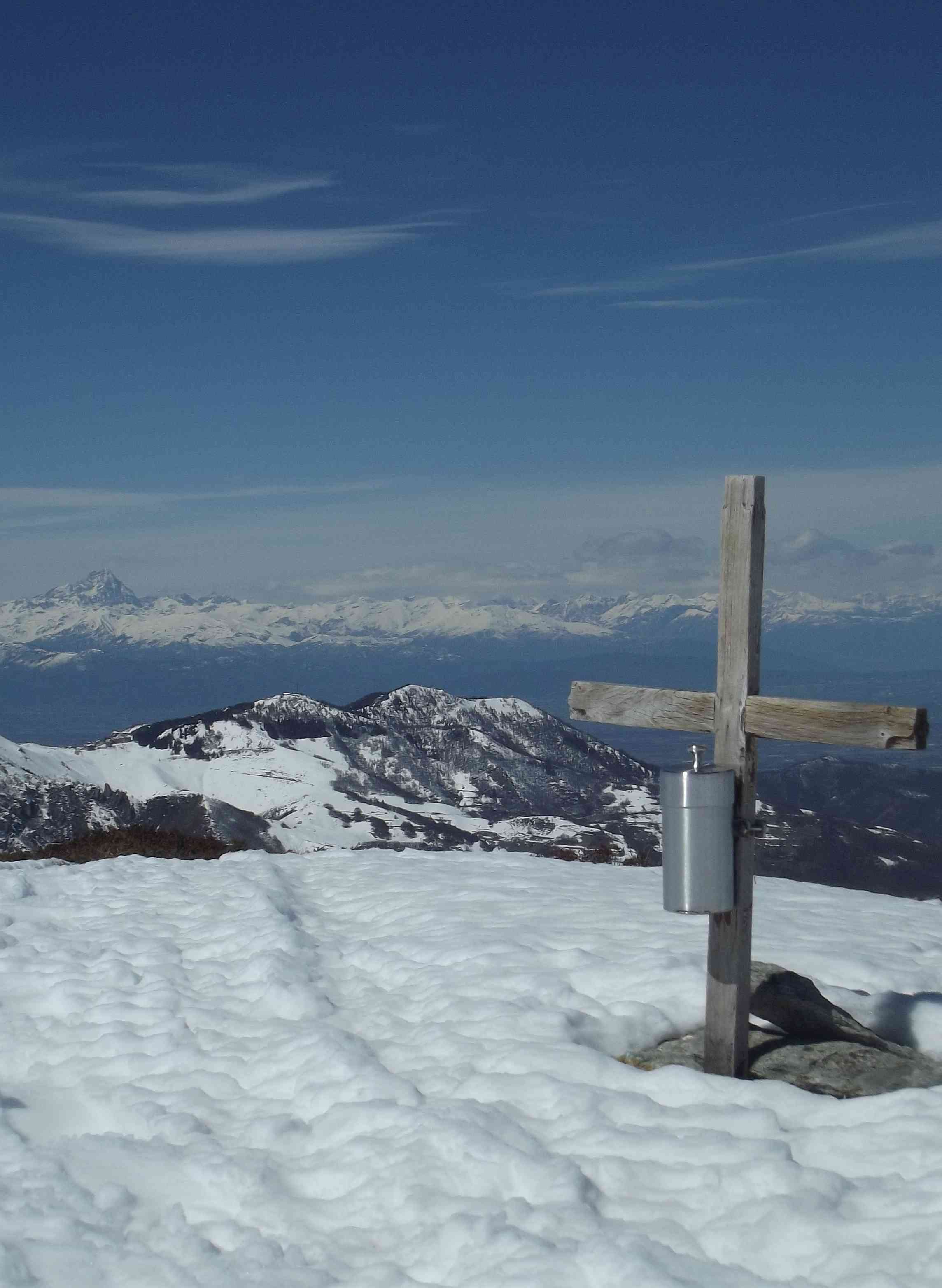 Monte Baussetti (Alpi Liguri): summit cross, in the background monte Monviso